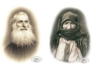 Hovhannes Tumanyan's parents: Aslan (1839-1898) and Sona (1842-1936).